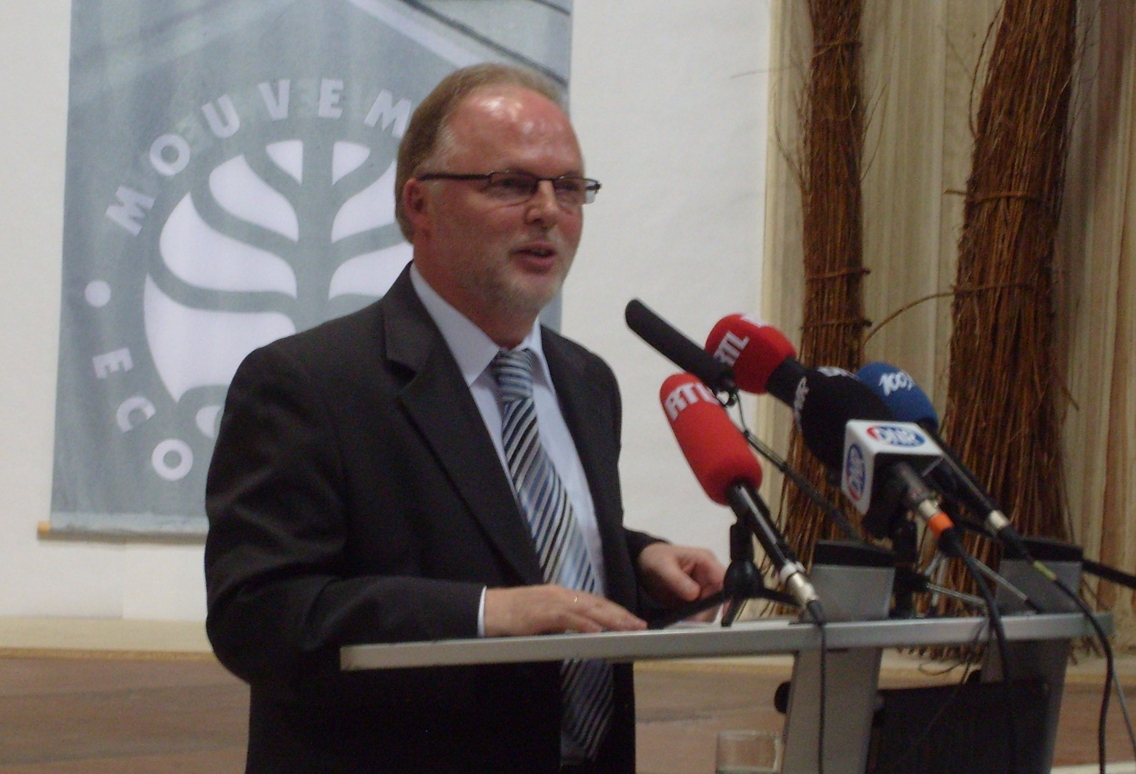 Lucien Lux, Luxembourgish politician, at the opening of the Oeko-Foire at Lux-Expo